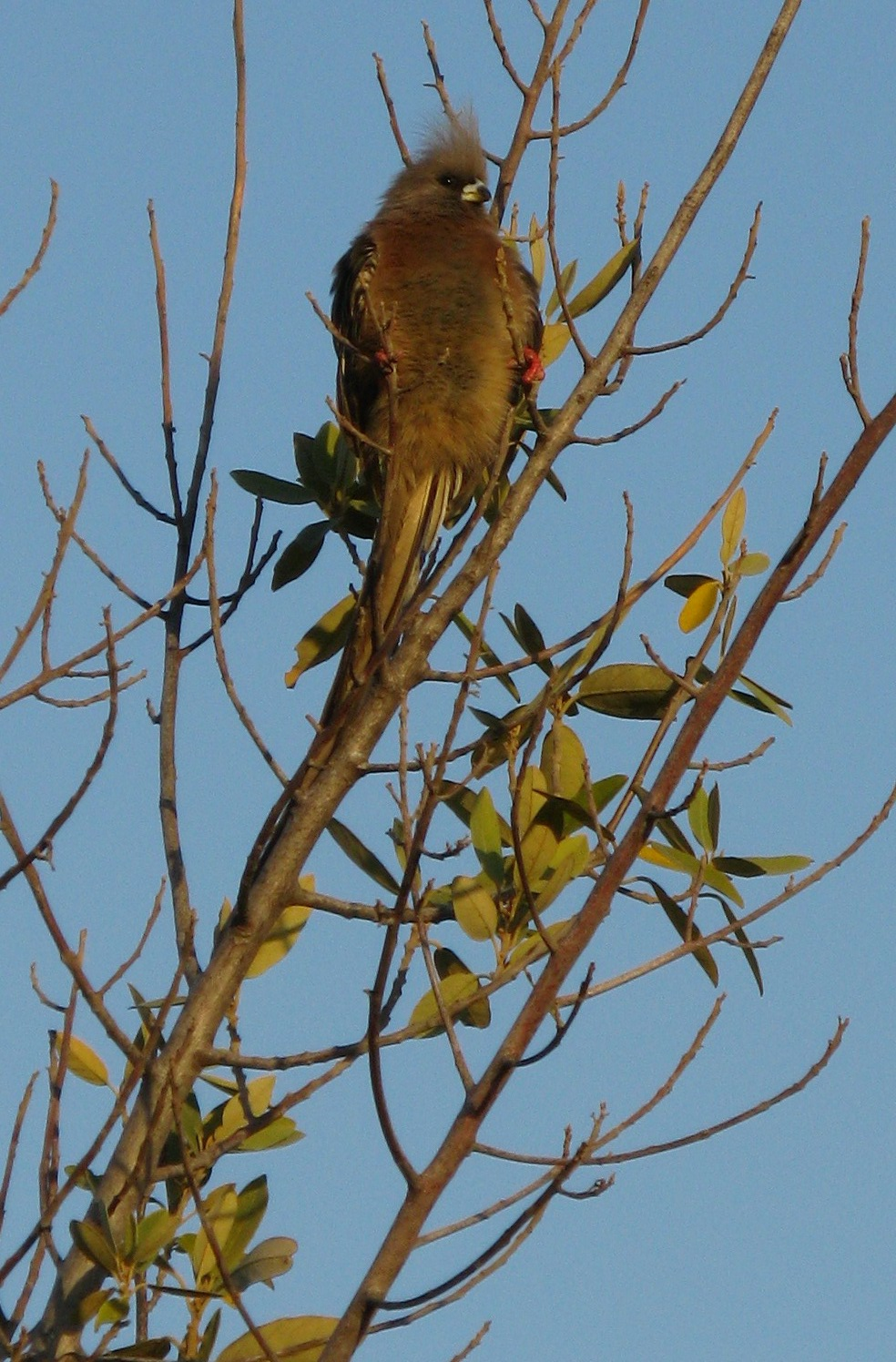 In mousebords this monkey-like or parrot-like attitude of hanging between branches is common instead of perching. It resembles the contortions of the bird when clambering among branches. Note the 2+2 toed feet.